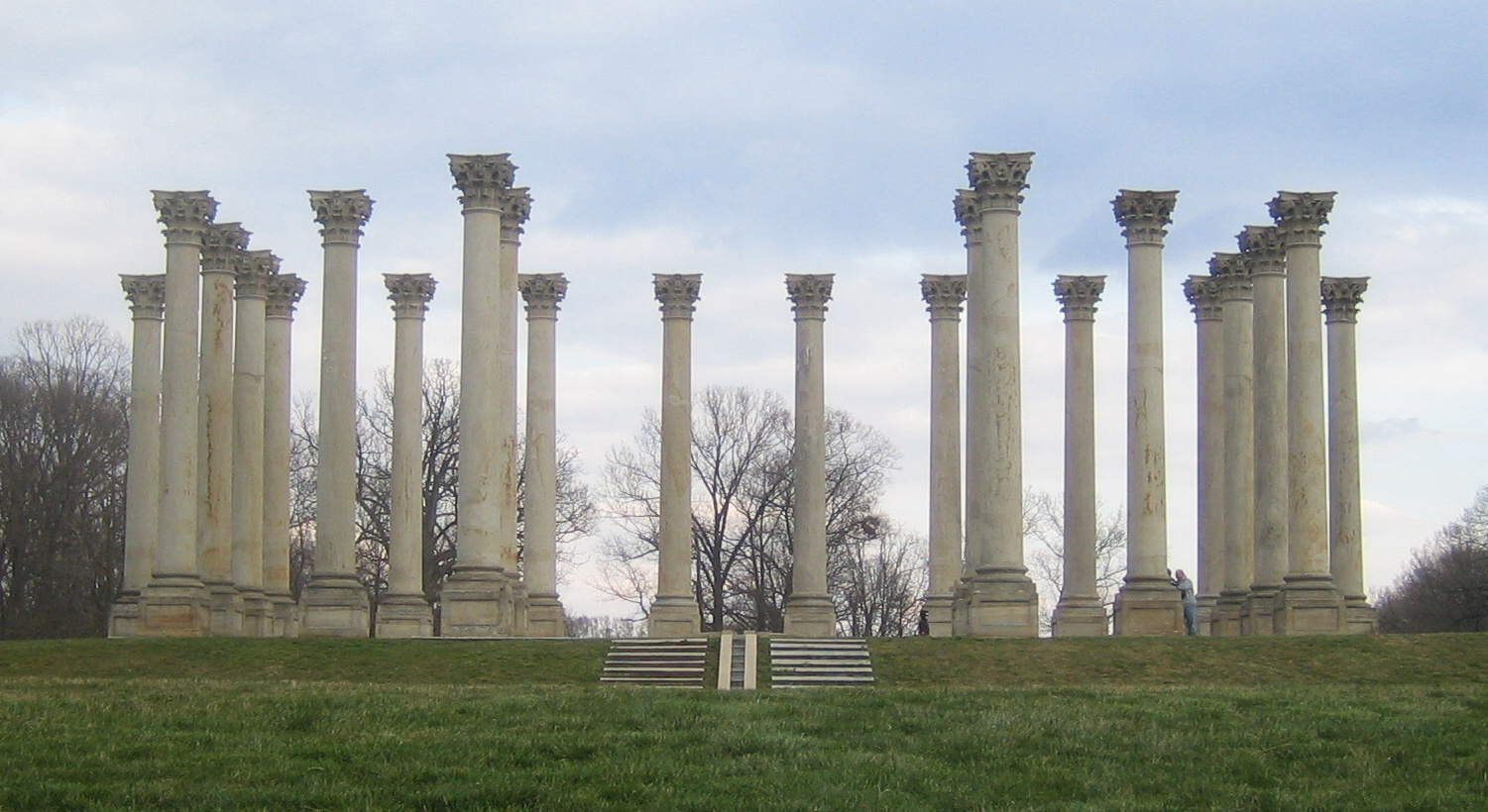 U.S. National Arboretum in Washington, D.C. Taken 3/26/06 on Canon PowerShot SD300 by User:D Monack.